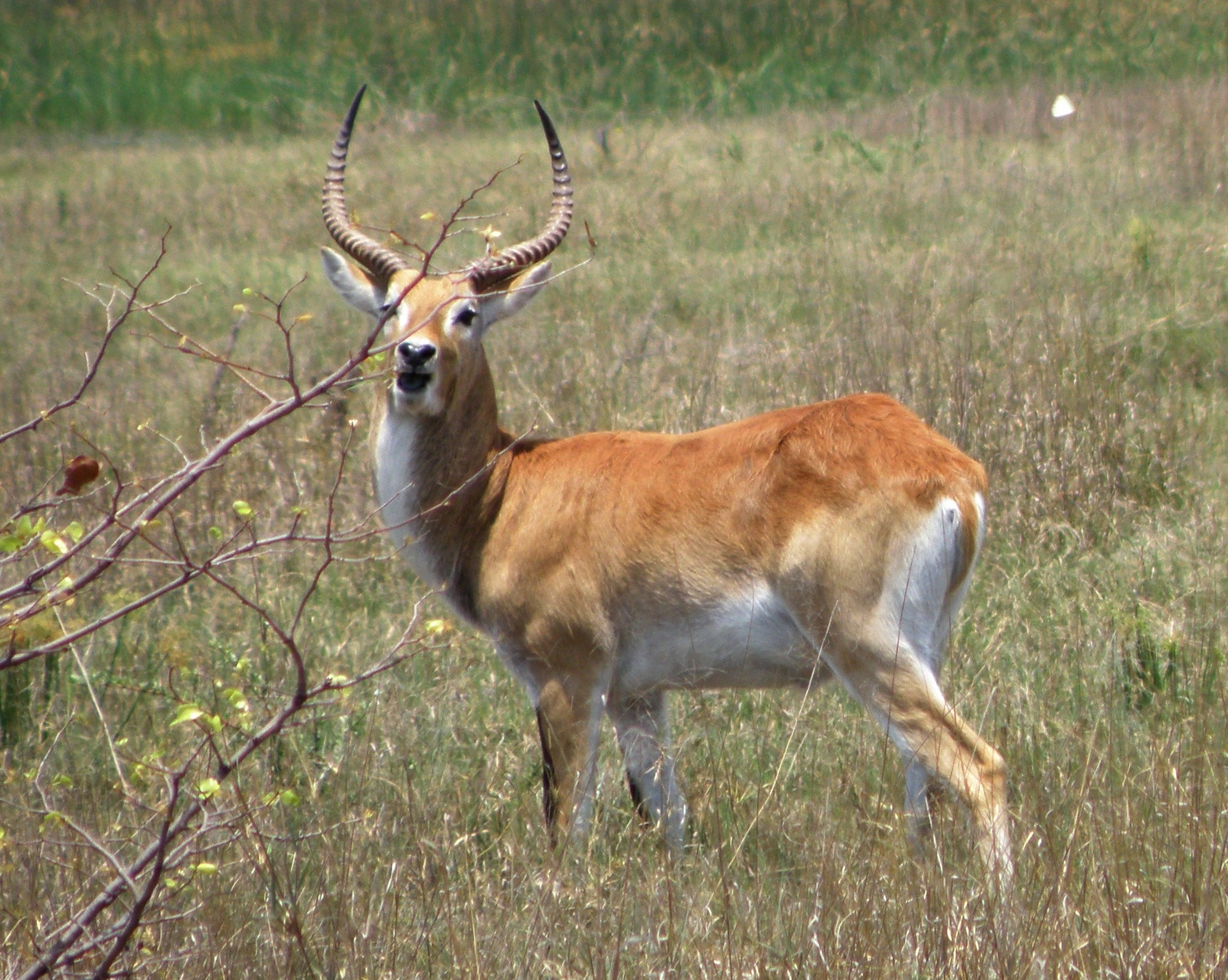 Male Lechwe (Kobus leche), Moremi Game Reserve, Botswana